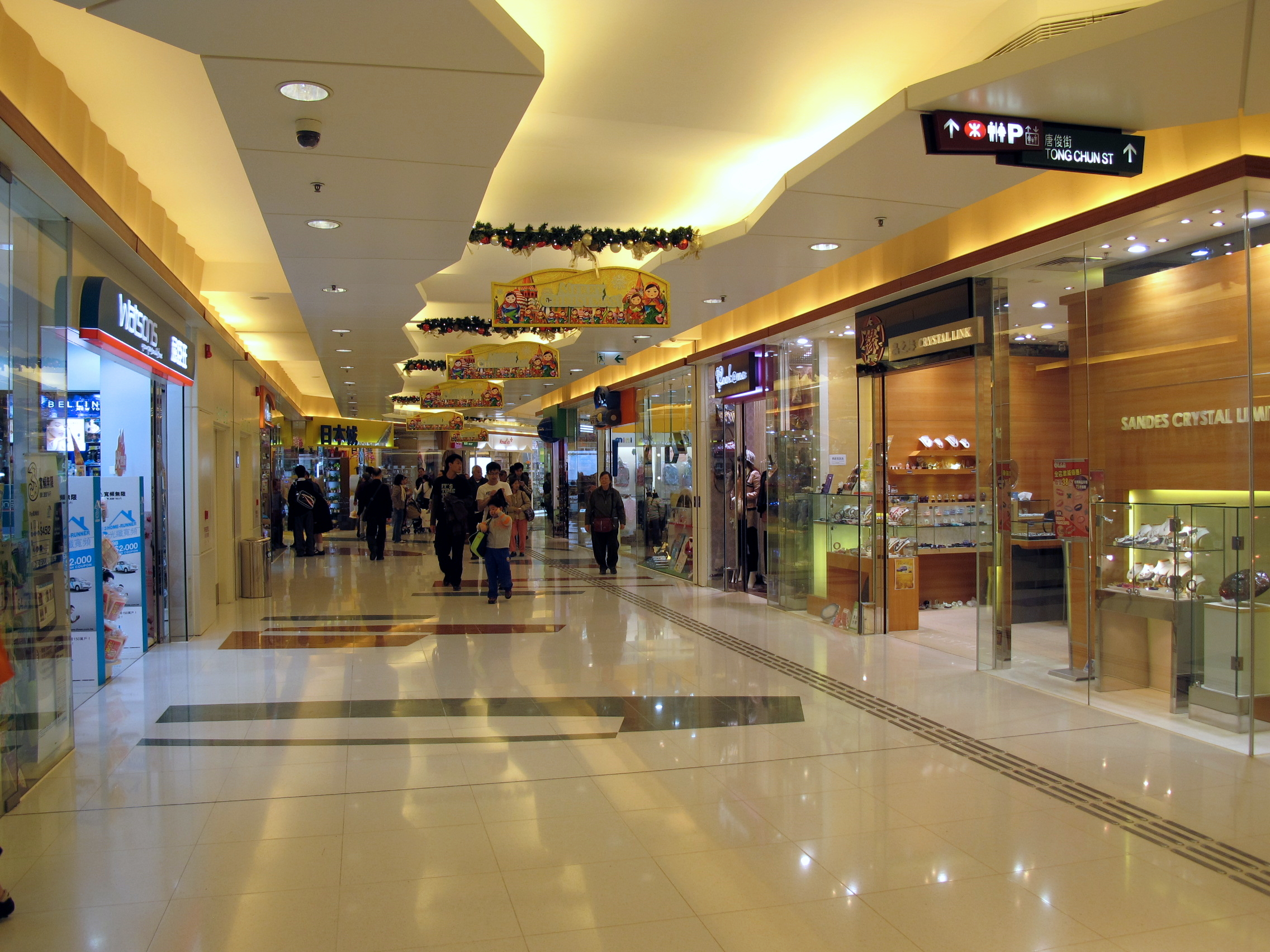 The Edge Level 1 Access